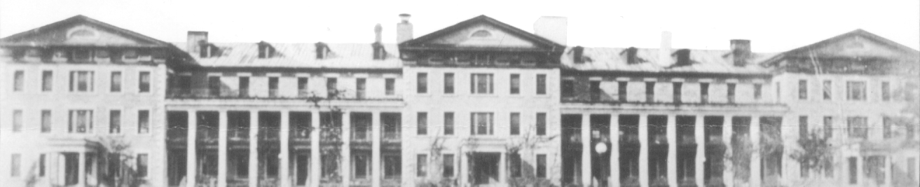 The Marine Hospital, Staten Island, N.Y."The National Institutes of Health began as a single room Laboratory of Hygiene for bacteriological investigation established by the U.S, Marine Hospital Service at Stapleton, Staten Island, New York, in 1887. From 1887 to 1891 the Laboratory was located in the attic of the Marine Hospital on Staten Island, which had been the Seaman's Retreat until leased by the Federal Government in 1883 and made part of the Marine Hospital Service. The building that housed the Laboratory still stands and is part of the Bayley Seton Hospital."